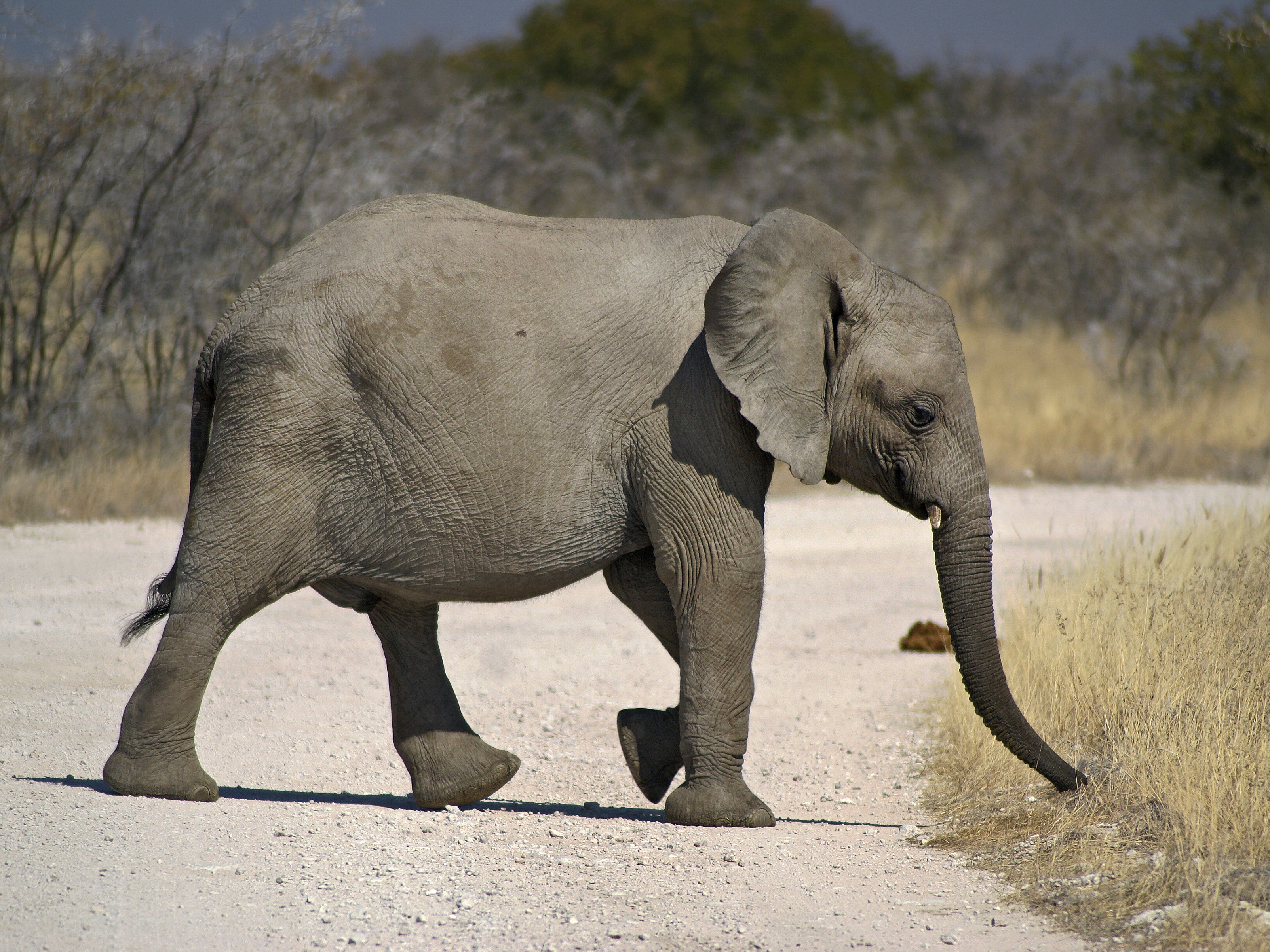 African Elephant crossing the road near Goas waterhole, Etosha, Namibia